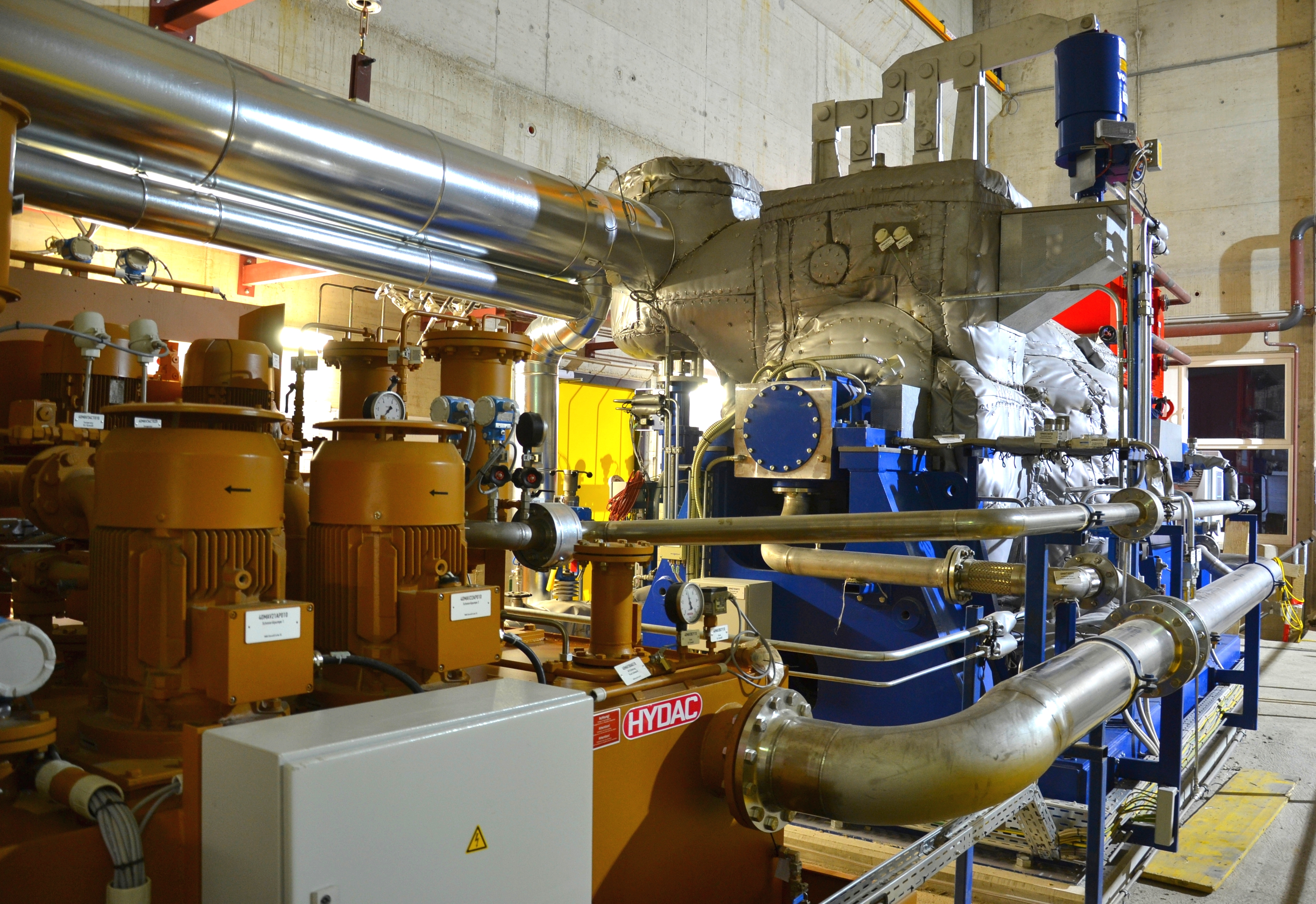 Steam Turbine